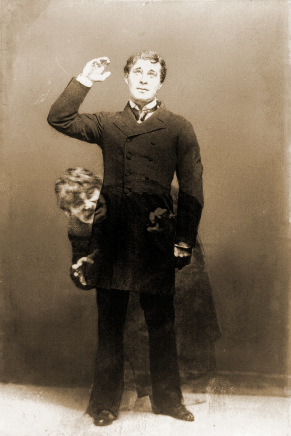 Richard Mansfield was best known for the dual role depicted in this double exposure: he starred in Dr. Jekyll and Mr. Hyde in both New York and London. The play opened in New York in 1887 and London in 1888.